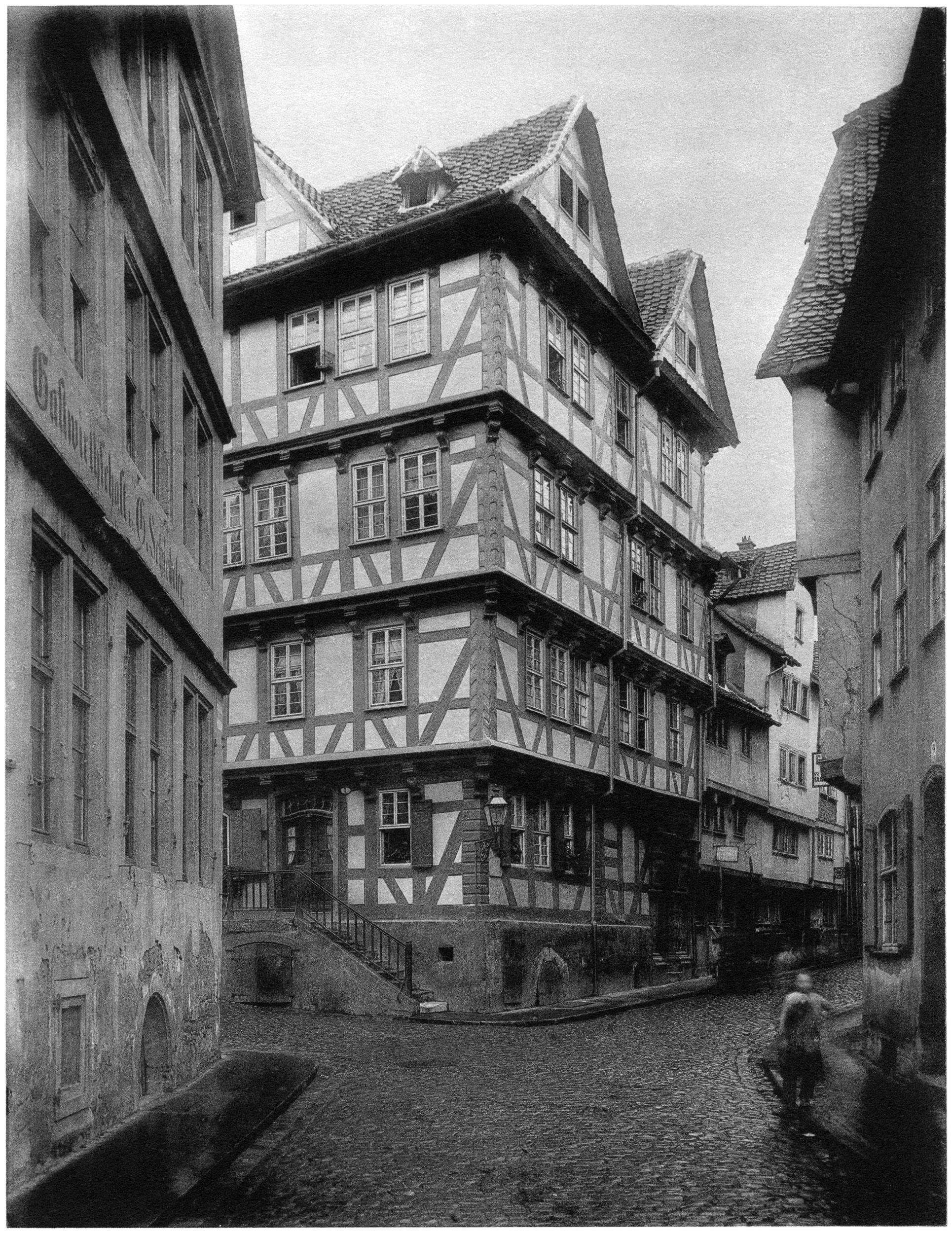 Table 37 / Title on the table: Cassel Klostergasse (Abbey Lane) No. 7 c. 1640. / Index title: Cassel. Klostergasse (Abbey Lane) No. 7 (ca. 1640). / Comment: destroyed in 1943